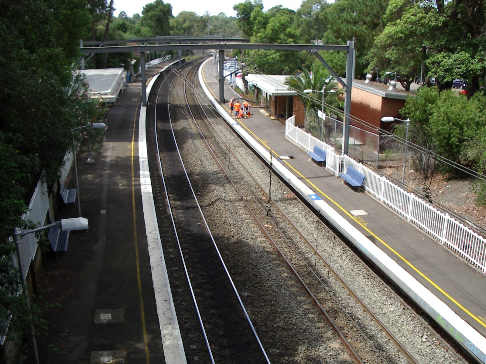 Cheltenham railway station, Cheltenham, Sydney, taken from a nearby road overpass, looking south -- old station before being redeveloped c.2015